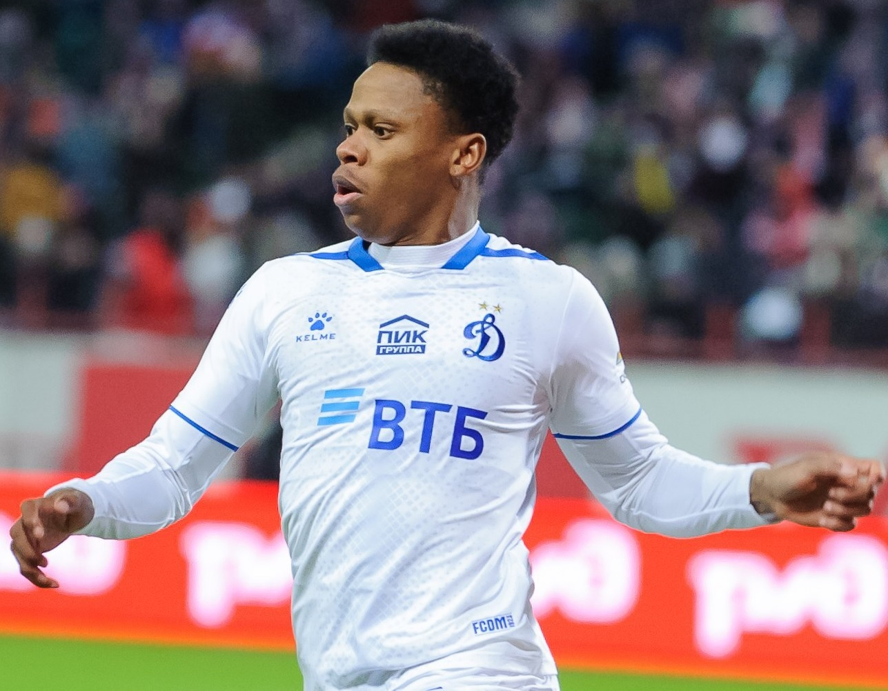 Clinton N'Jie playing for FC Dynamo Moscow against FC Lokomotiv Moscow.